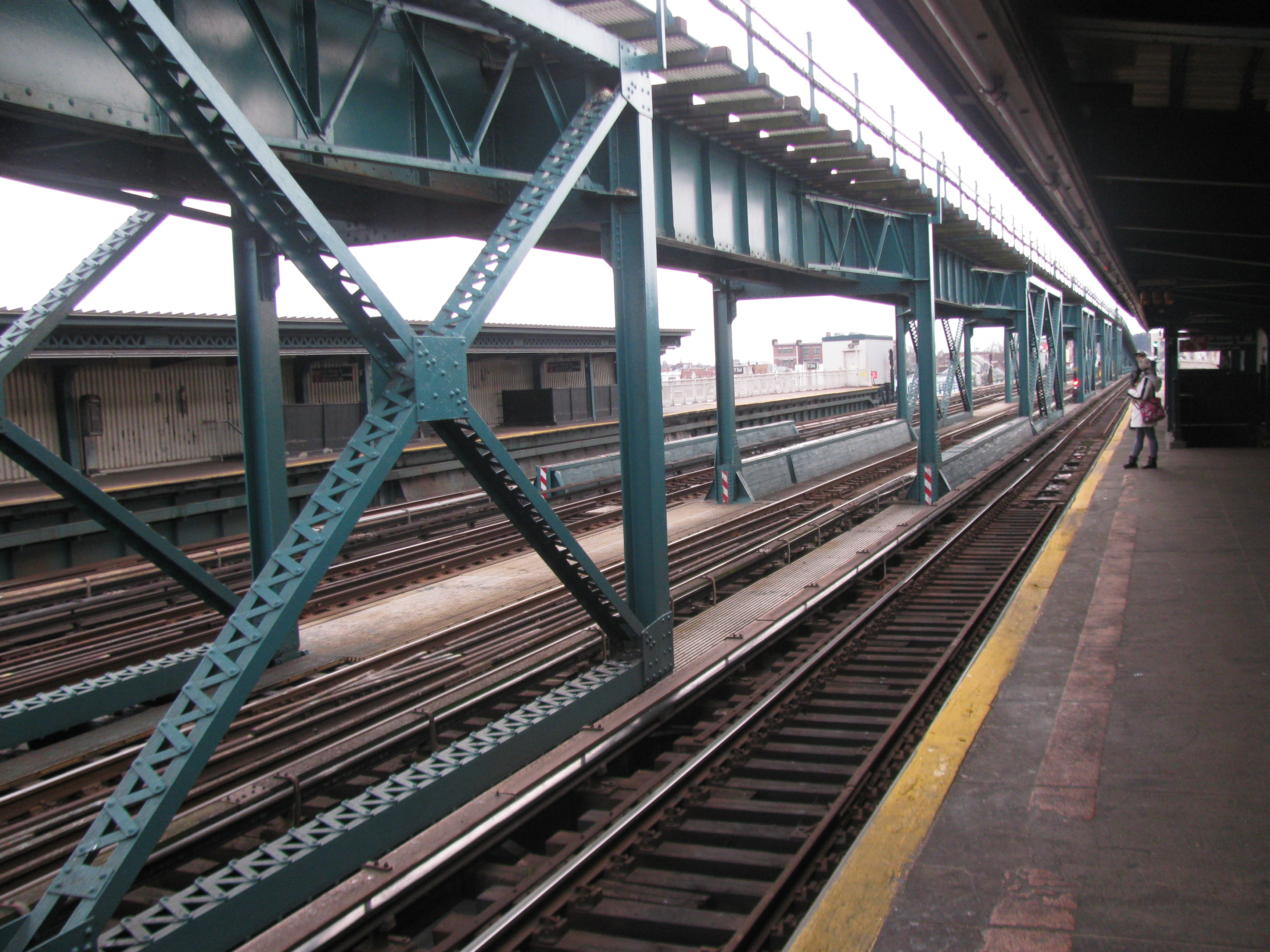 111th Street